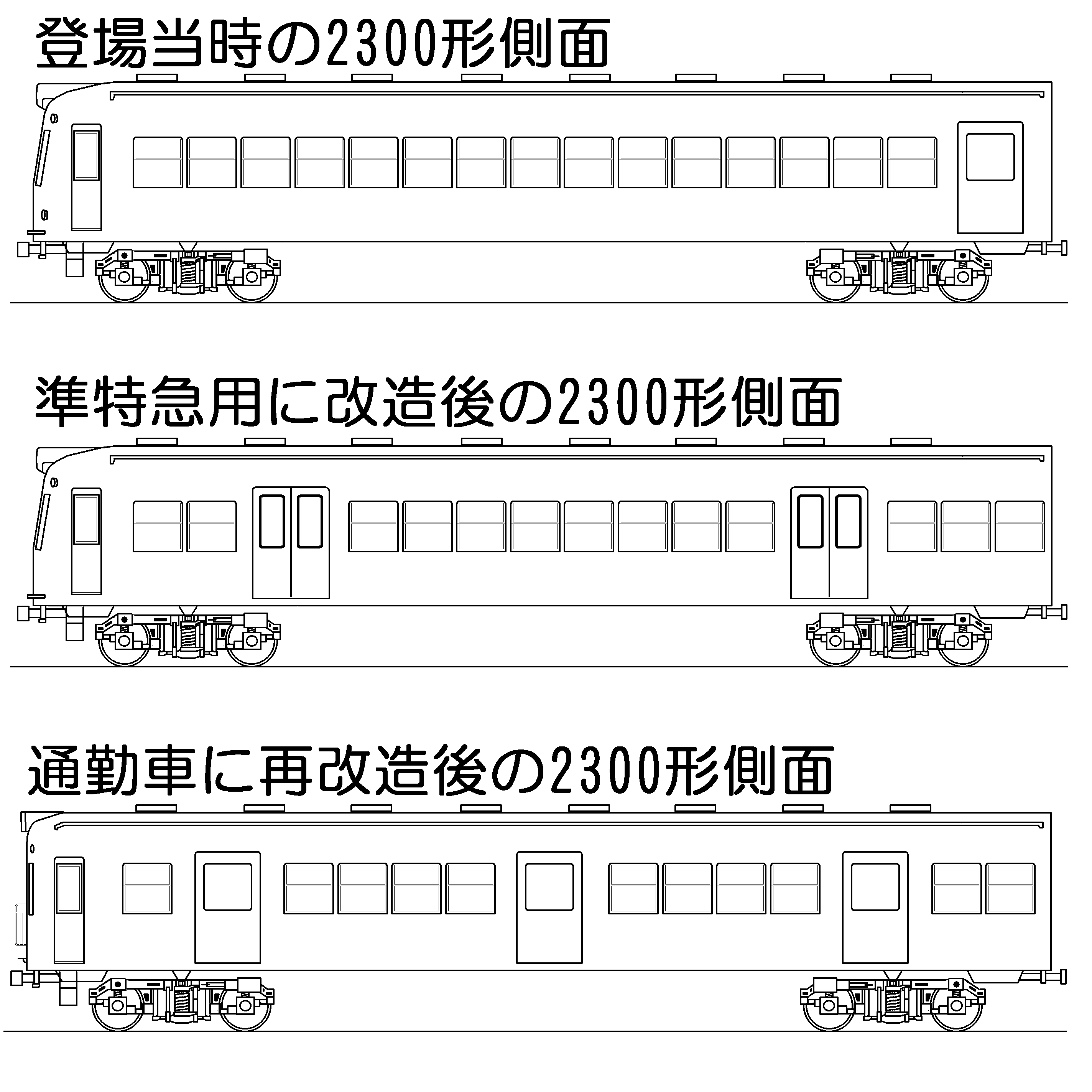 The side view of the EMU series 2300 of Odakyu Electric Railway.